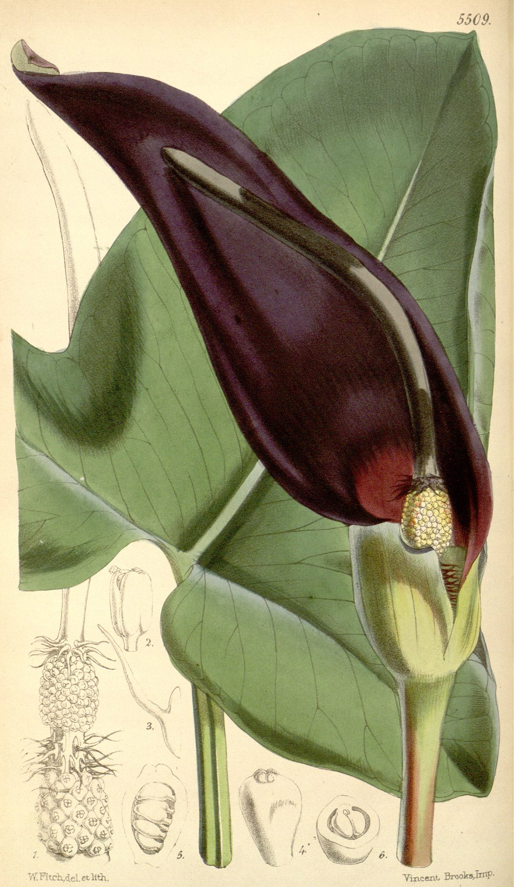 Arum palaestinum botanical drawing